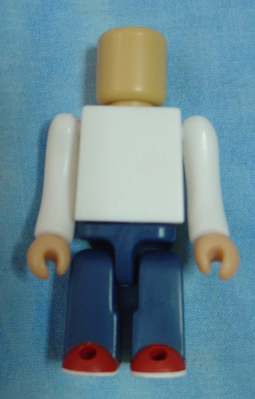 A basic Kubrick figure (from the Customize Boys/Girls series)